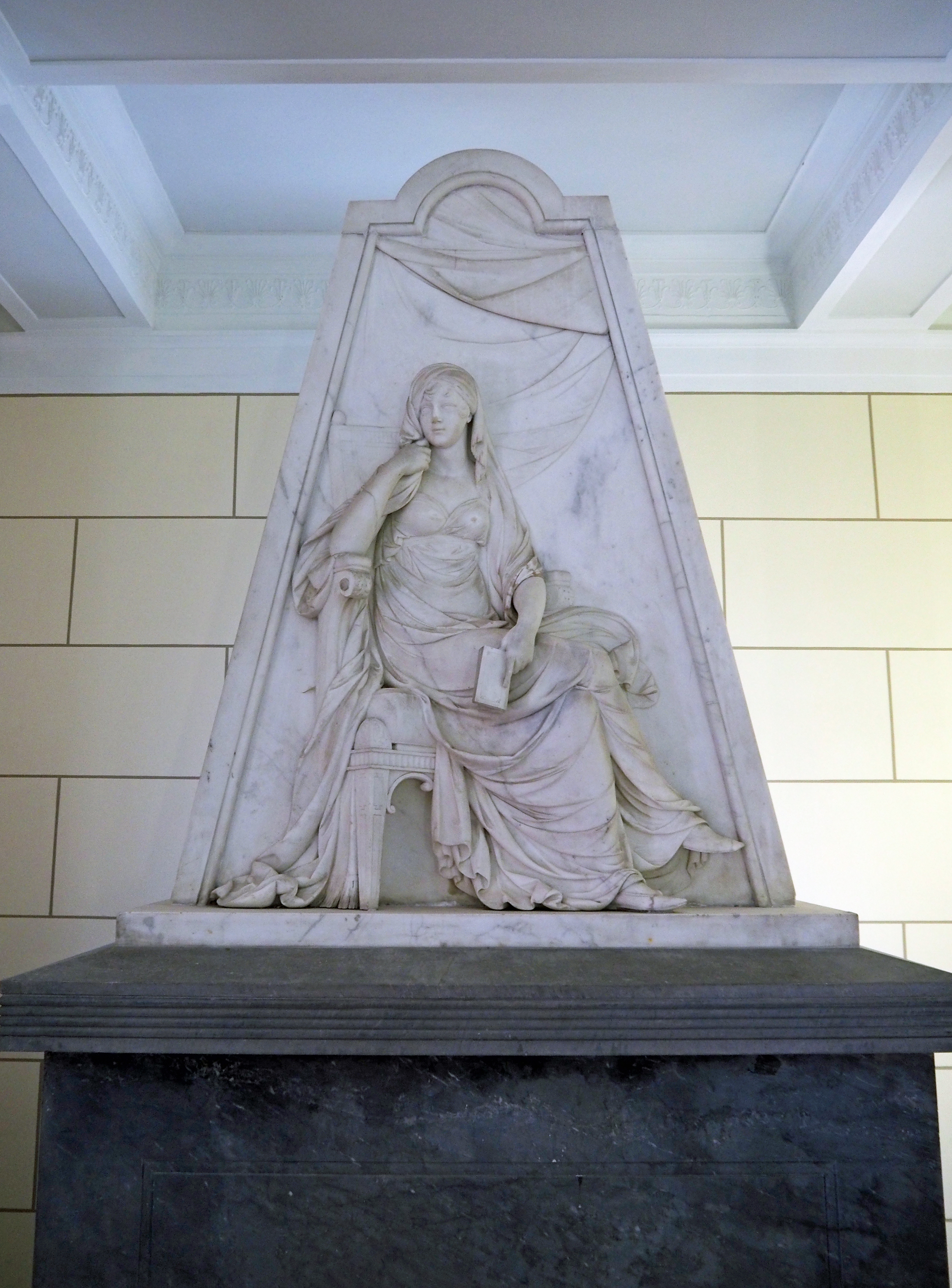 Memorial of Helena Pawlowna in Ludwigslust, scupted by Peter Rouw c. 1806